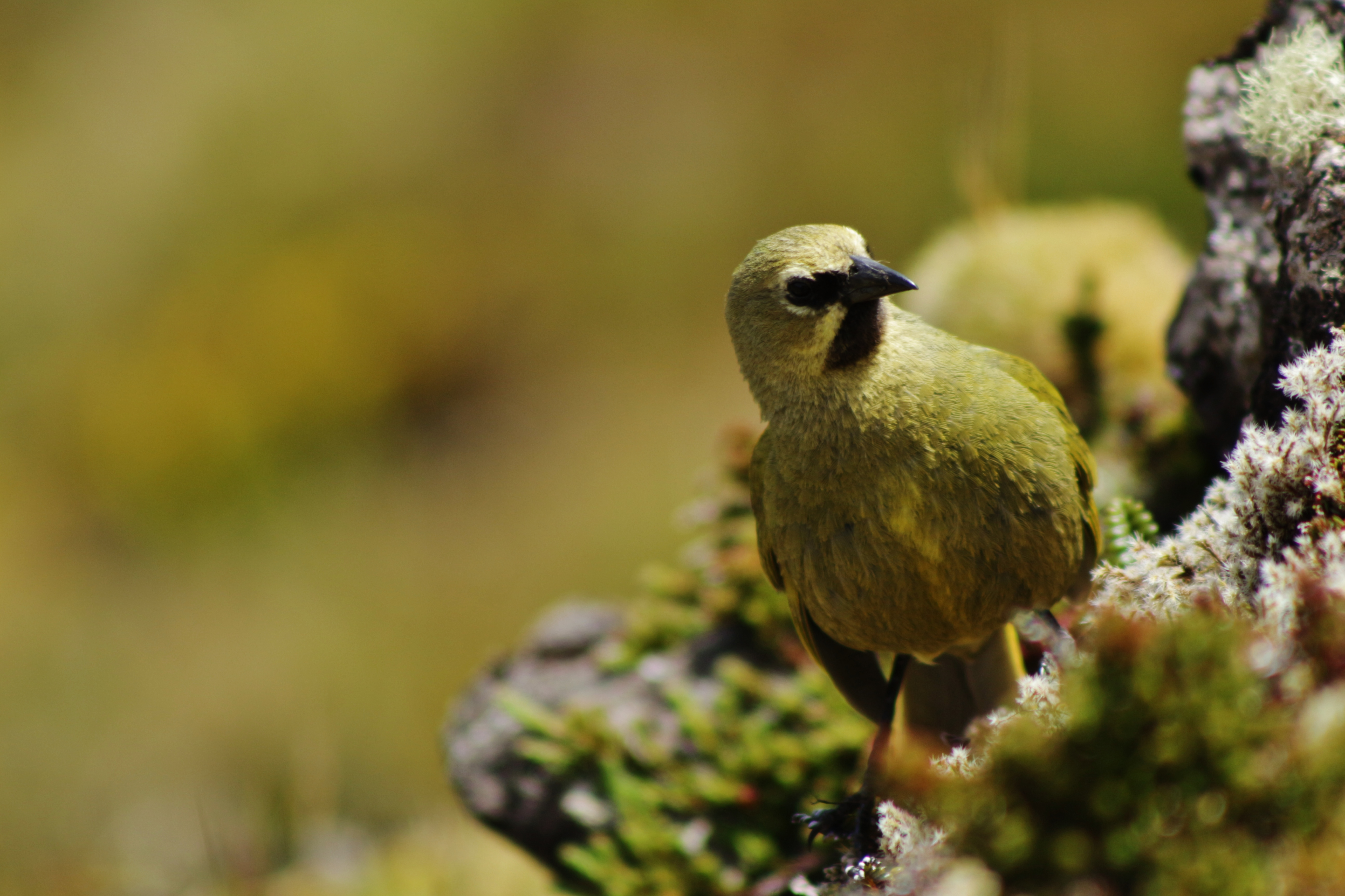 MaleGough Bunting on Gough Island